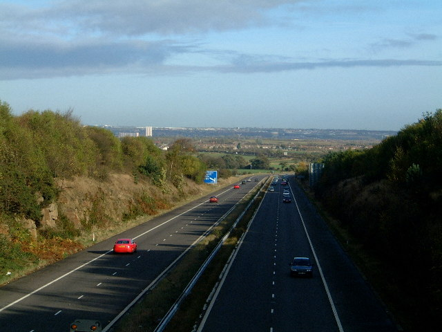 A194(M) North. This photo was taken from Peareth Hall Road, looking northbound. The motorway has two further junctions before it ends. The next one is signposted for Washington North and Felling.